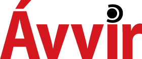 Ávvir logo